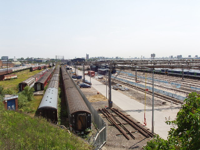 Old Oak Common Sidings. From Old Oak Common Lane